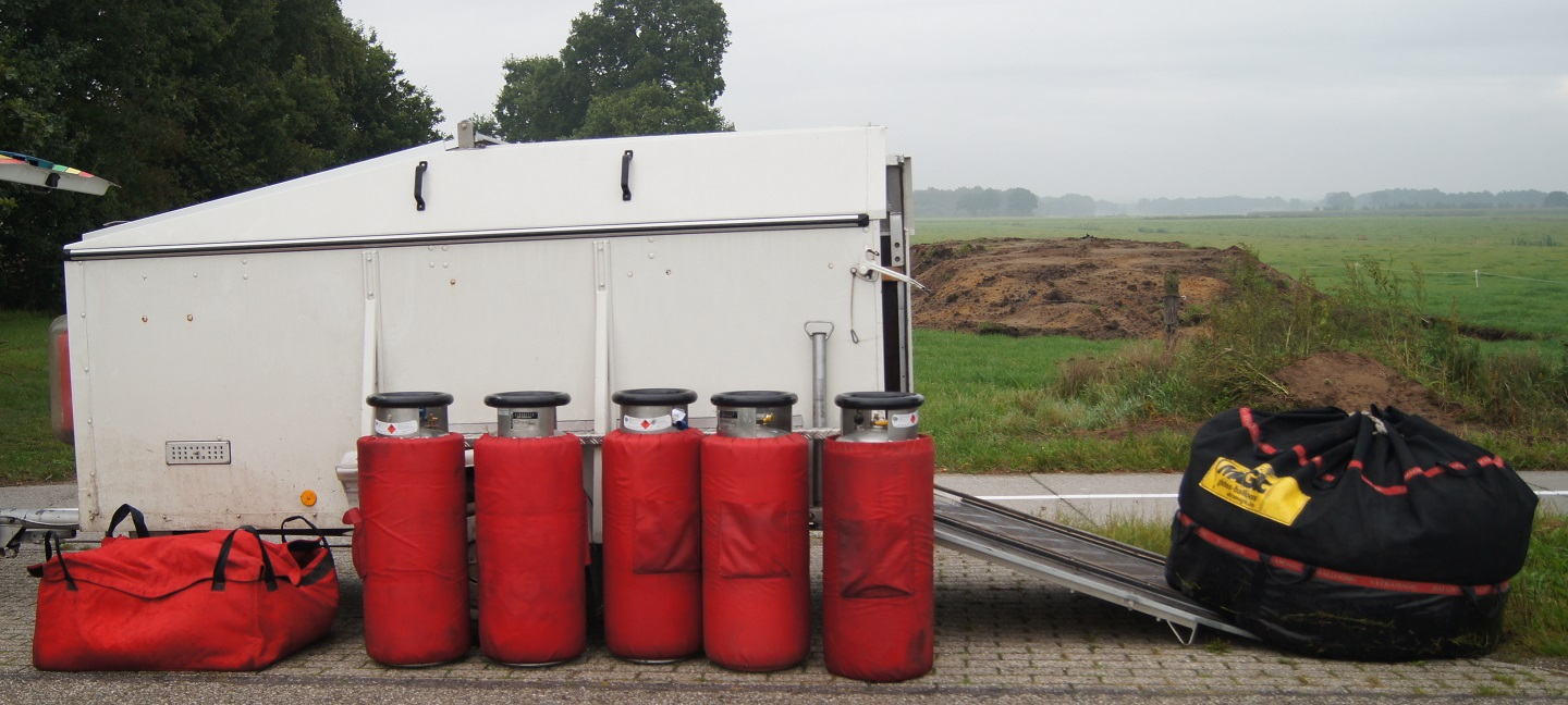 trailer for hot air balloons, burner, 5 gas bottles, balloon envelope packed